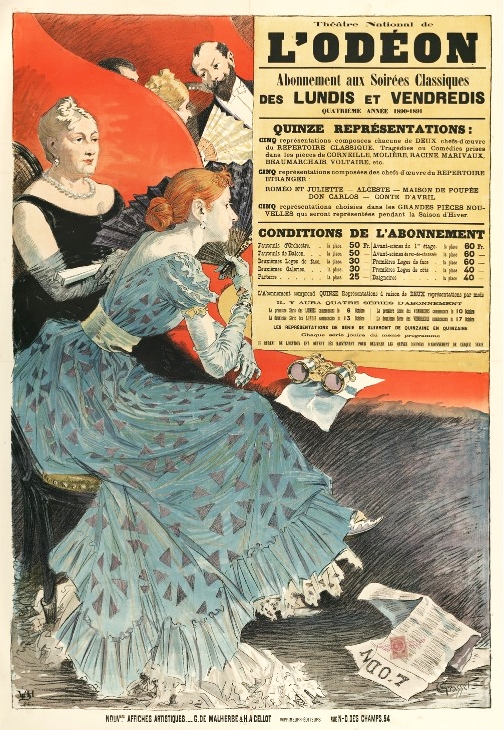 1890 poster for the Théâtre national de l'Odéon by Eugène Grasset (1845-1917)